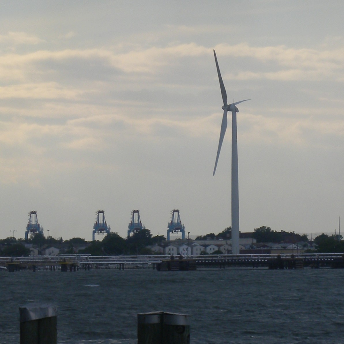 Looking northwest across Kill Van Kull at new wind turbine on a mostly cloudy afternoon. Container cranes in background are on distant Newark Bay.